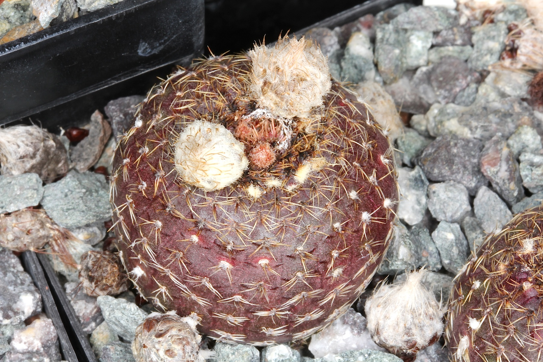 Frailea cataphracta